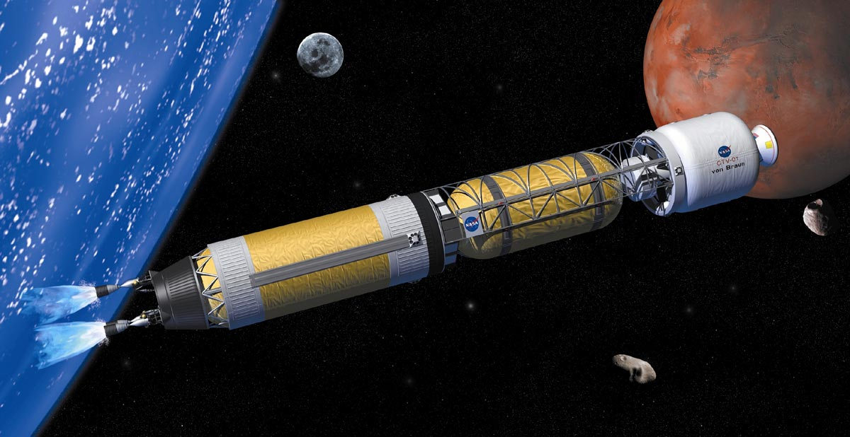 Bimodal Nuclear Thermal Rockets conduct nuclear fission reactions similar to those safely employed at nuclear power plants including submarines. The energy is used to heat the liquid hydrogen propellant. Advocates of nuclear powered spacecraft point out that at the time of launch, there is almost no radiation released from the nuclear reactors. The nuclear-powered rockets are not used to lift off the Earth. Nuclear thermal rockets can provide great performance advantages compared to chemical propulsion systems. Nuclear power sources could also be used to provide the spacecraft with electrical power for operations and scientific instrumentation.